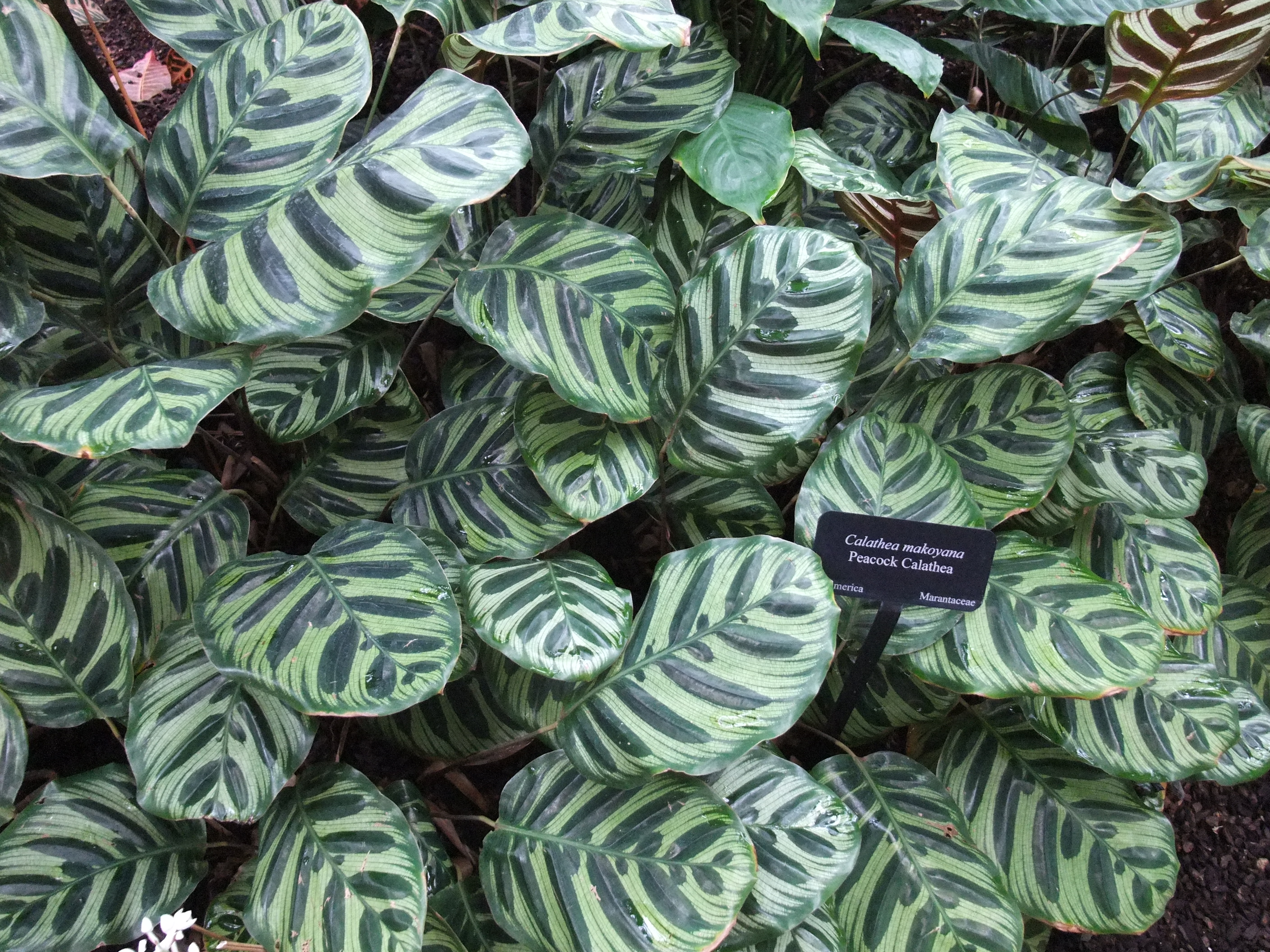 A photograph of Calathea makoyana.